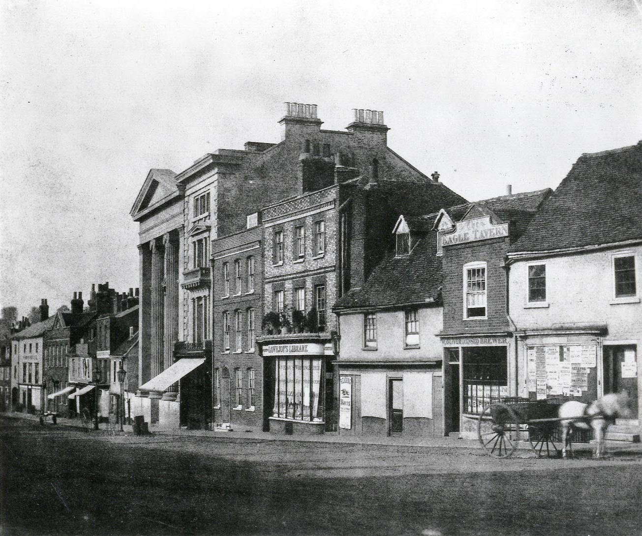 London Street, Reading. East side, c. 1845. No. 33 (Reading Literary, Scientific and Mechanics' Institution); No. 39 (Lovejoy's Library, bookseller, circulating library, post office, and stationer's); No. 41 (with poster for Reading Races); No. 43 (The Eagle Tavern). A horse and cart waits outside the inn. 1840-1849 : photograph by W. H. Fox Talbot. The original is in the Science Museum/Science and Society Picture Library, negative number 462/65.